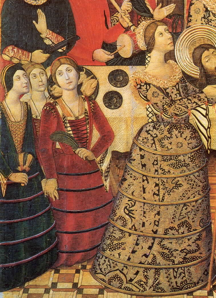 Retable of St. John the Baptist - detail of Salome and ladies wearing early verdugados (farthingales) or hoop skirts